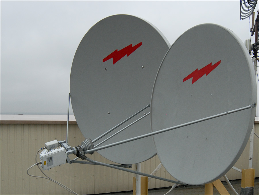 VSAT dish antenna 1.2 and 1.8 meter.